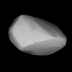 3D convex shape model of 1160 Illyria, computed using light curve inversion techniques. J. Hanuš, J. Ďurech, M. Brož, B. D. Warner (June 2011). "A study of asteroid pole-latitude distribution based on an extended set of shape models derived by the lightcurve inversion method". Astronomy and Astrophysics 530: A134. ISSN 0004-6361. arXiv